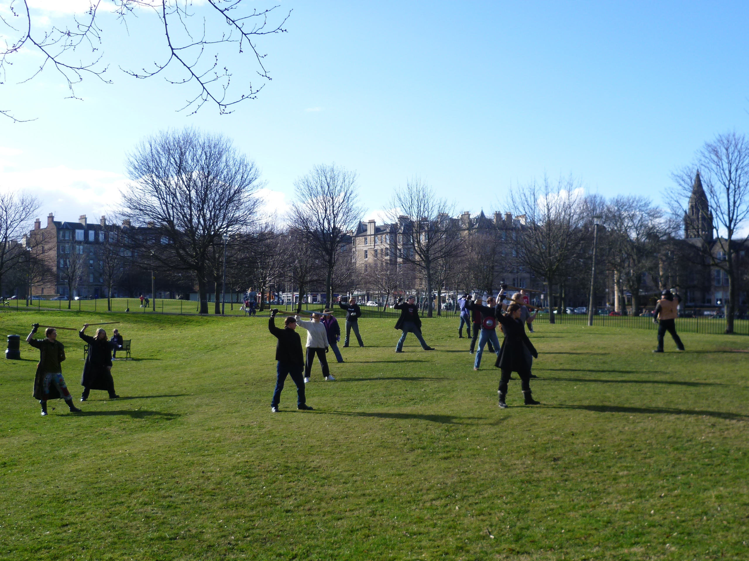 Members of 'Lothene', a historical re-enactment group specialising in Scottish history, practise their combat skills in the same area where, almost exactly five centuries ago, a contingent of the Scottish Army is believed to have mustered before setting out on the campaign that culminated in the Battle of Flodden.